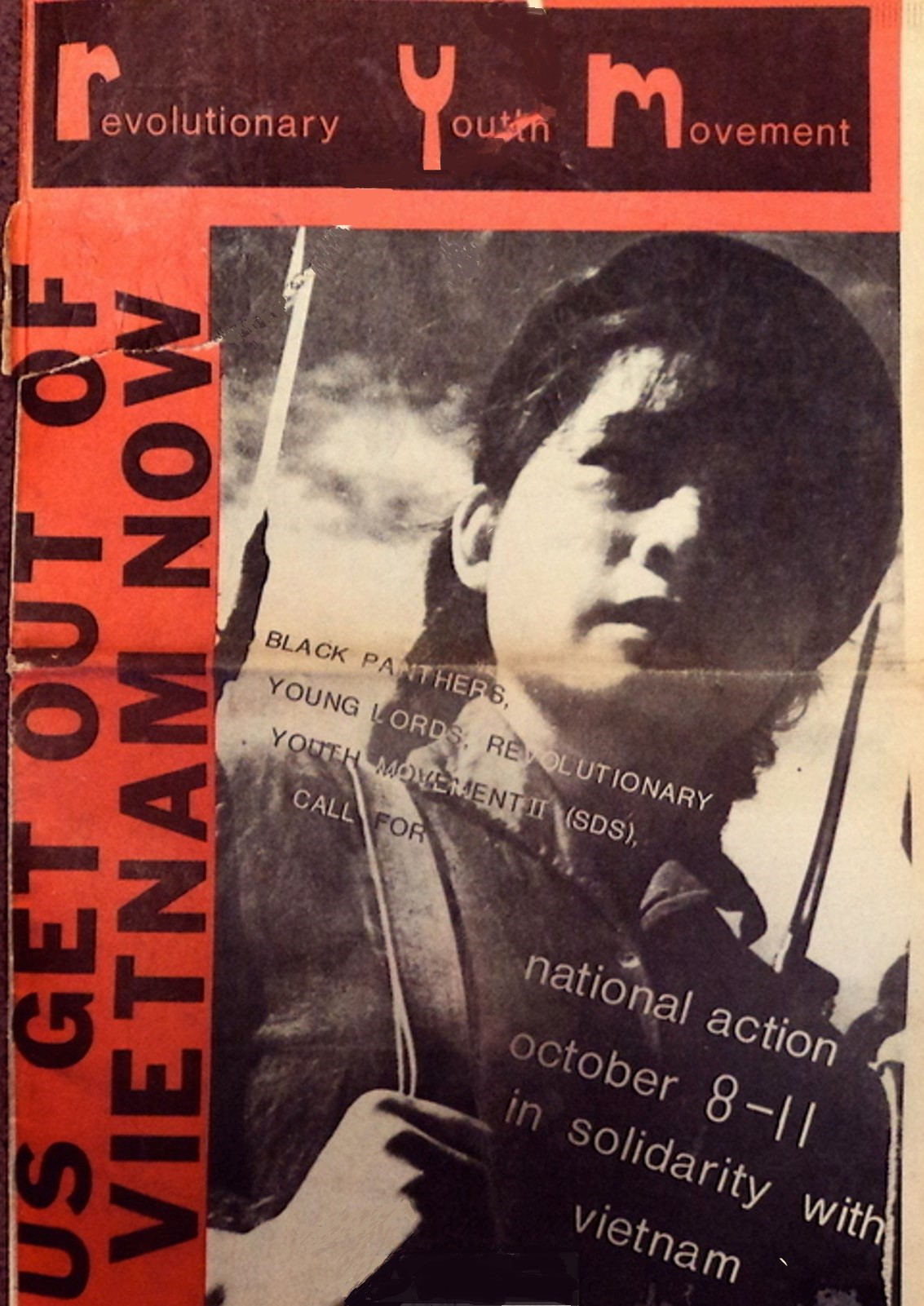 Front cover of RYM call for national day of action in solidarity with Vietnam, 1969